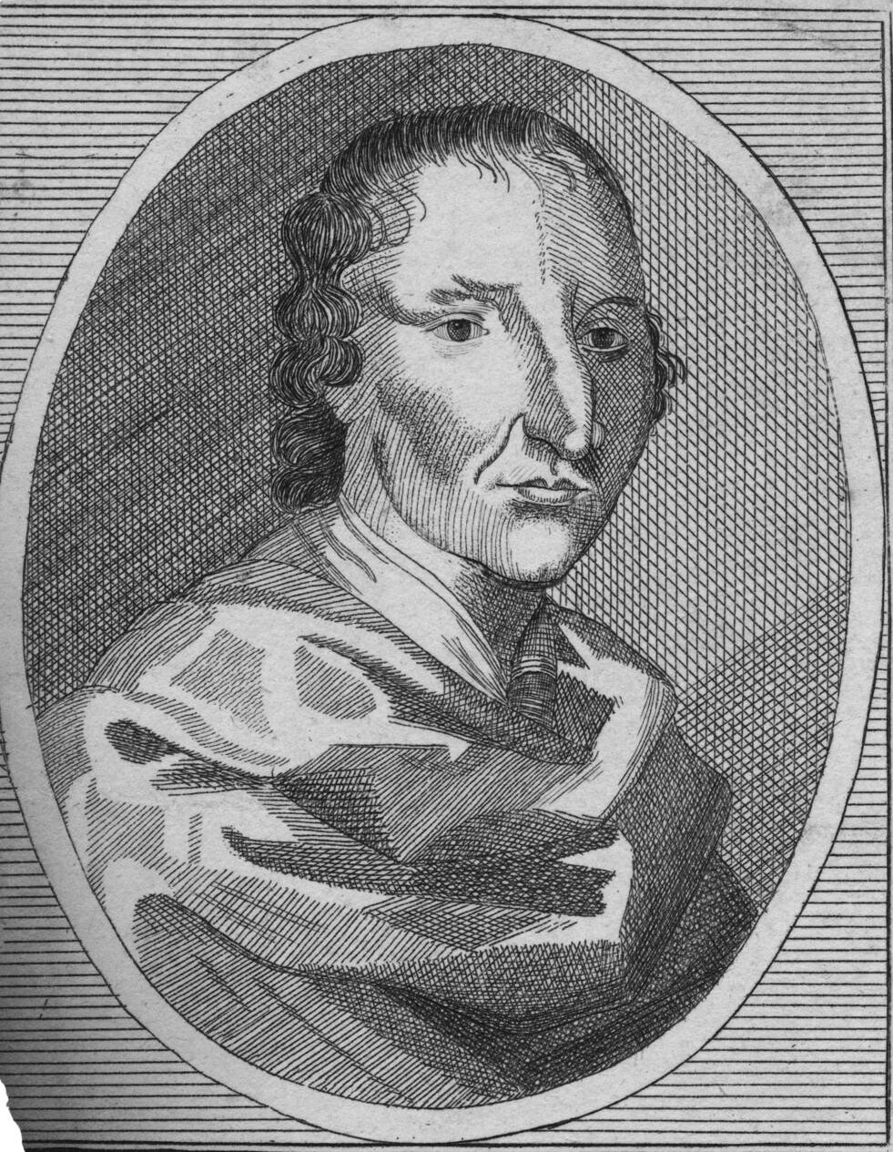 Francis Kirkman, after Unknown artist